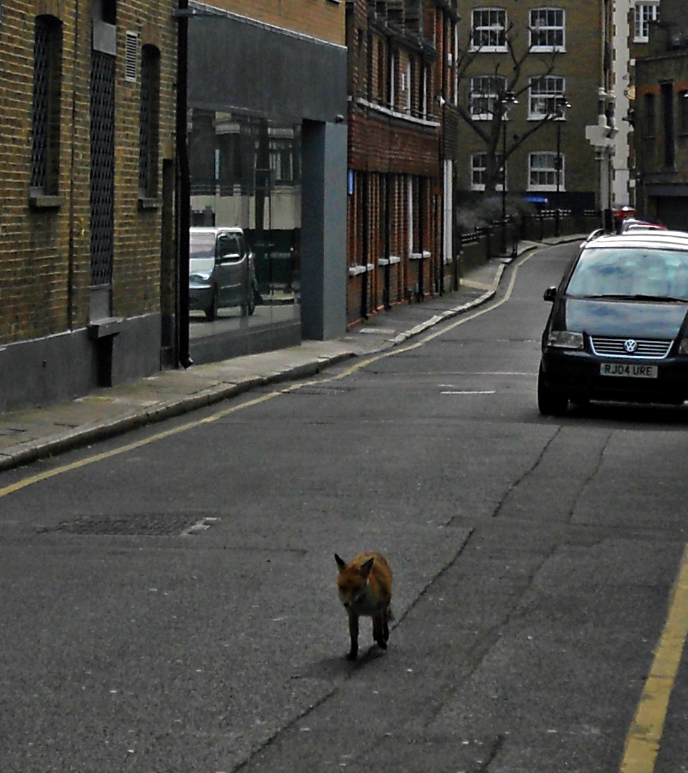 Brazenly scampering down Ayres Street, Southwark. Pity I couldn't get a better picture of it; I was on the mobile at the time and had to grab the compact and fire a couple of shots off before it was gone. Posting this first in "Guess Where London".